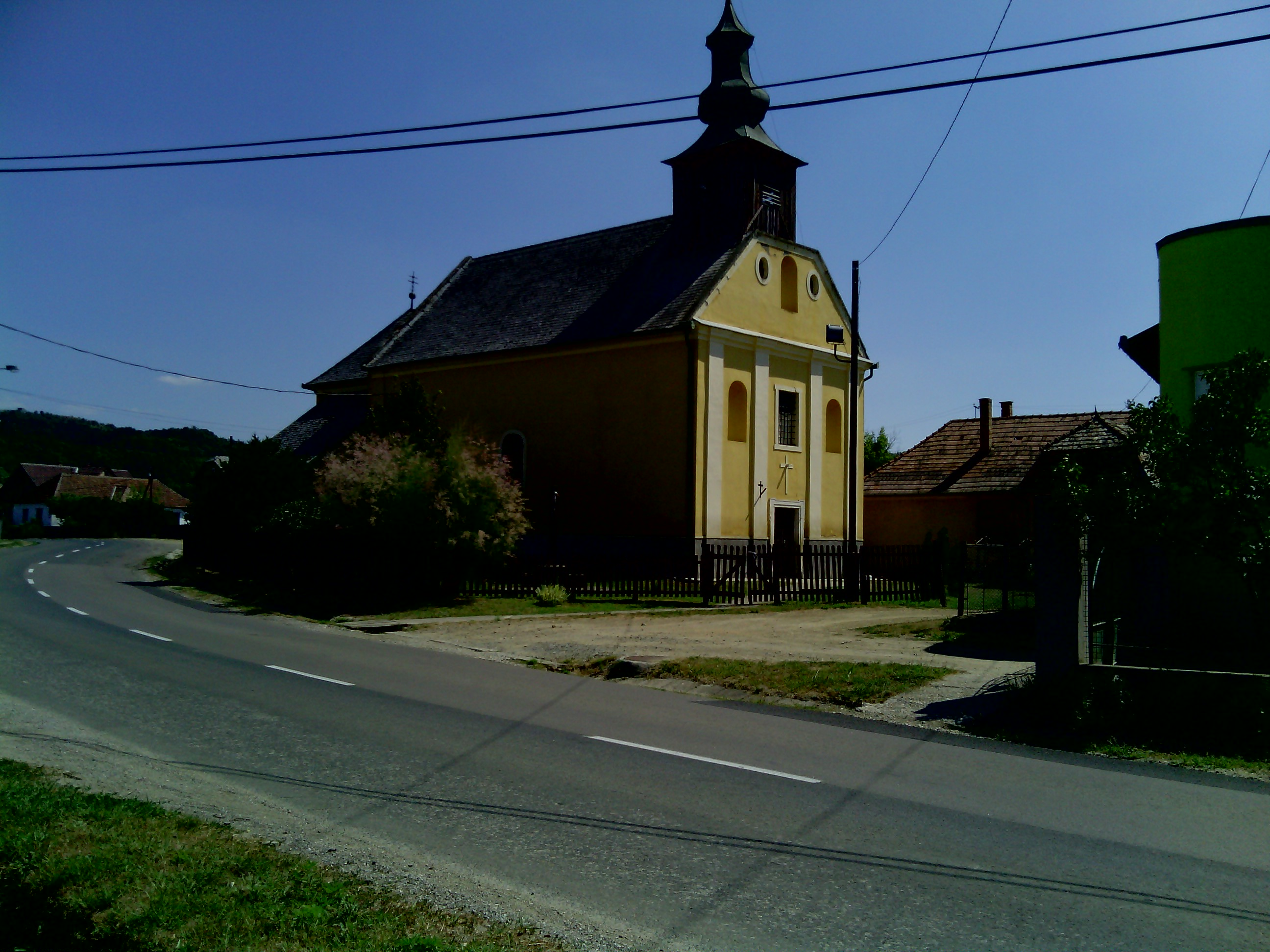 Roman catholic church in near Route 25 in Szentdomonkos, Hungary